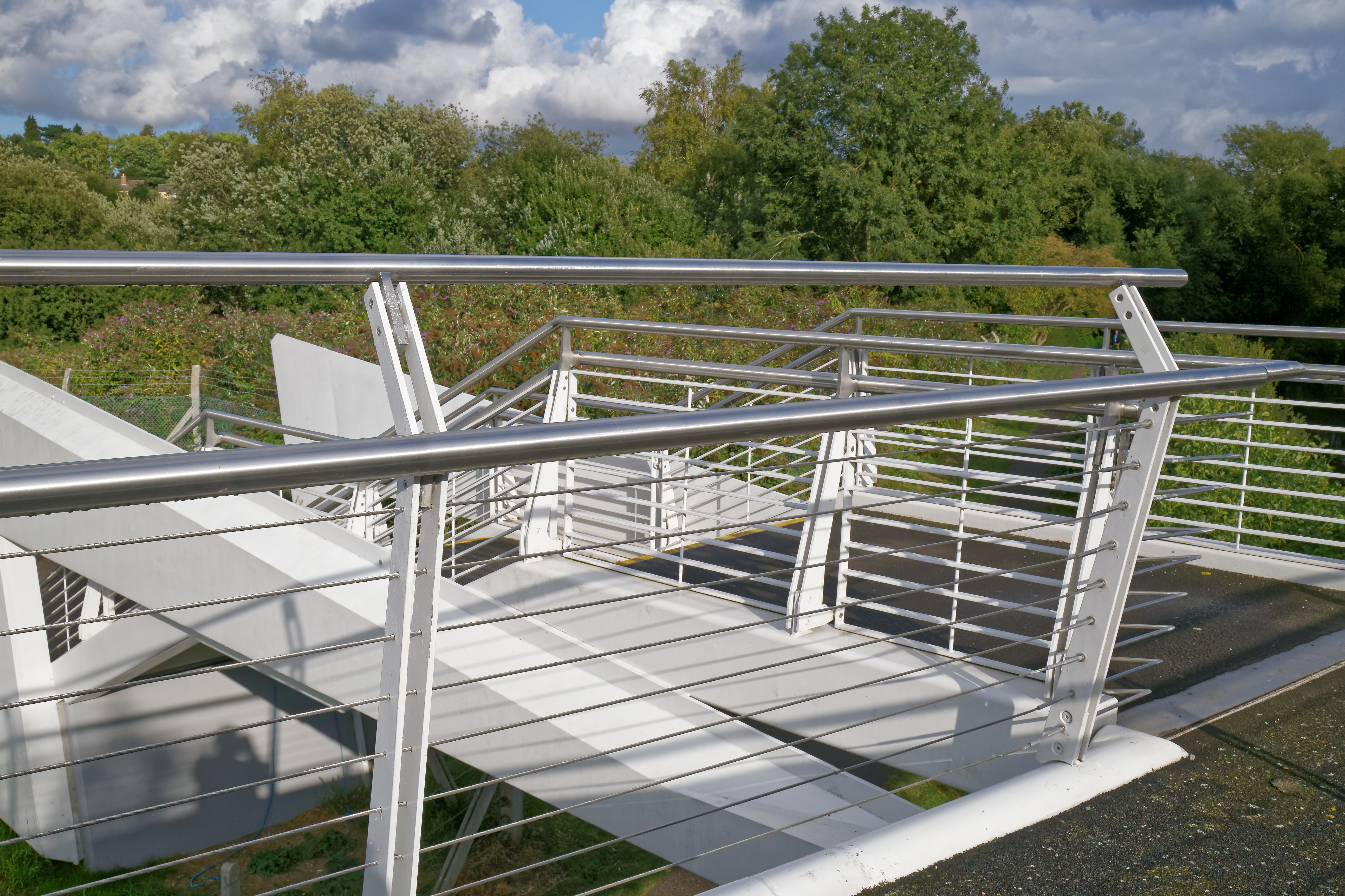 A footbridge from the Maltings on Southmill road, across the River Stort to the site of the previous British Rail Goods Yard at Bishop's Stortford, Hertfordshire, England. The bridge was completed in 2008.Software: RAW file lens-corrected, optimized and converted to JPEG with DxO OpticsPro 10 Elite, and likely further optimized and/or cropped and/or spun with Adobe Photoshop CS2.